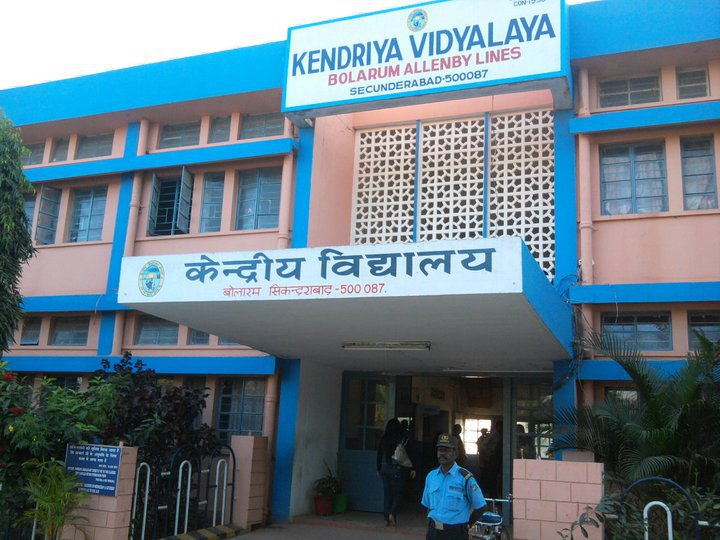 K V Bolarum